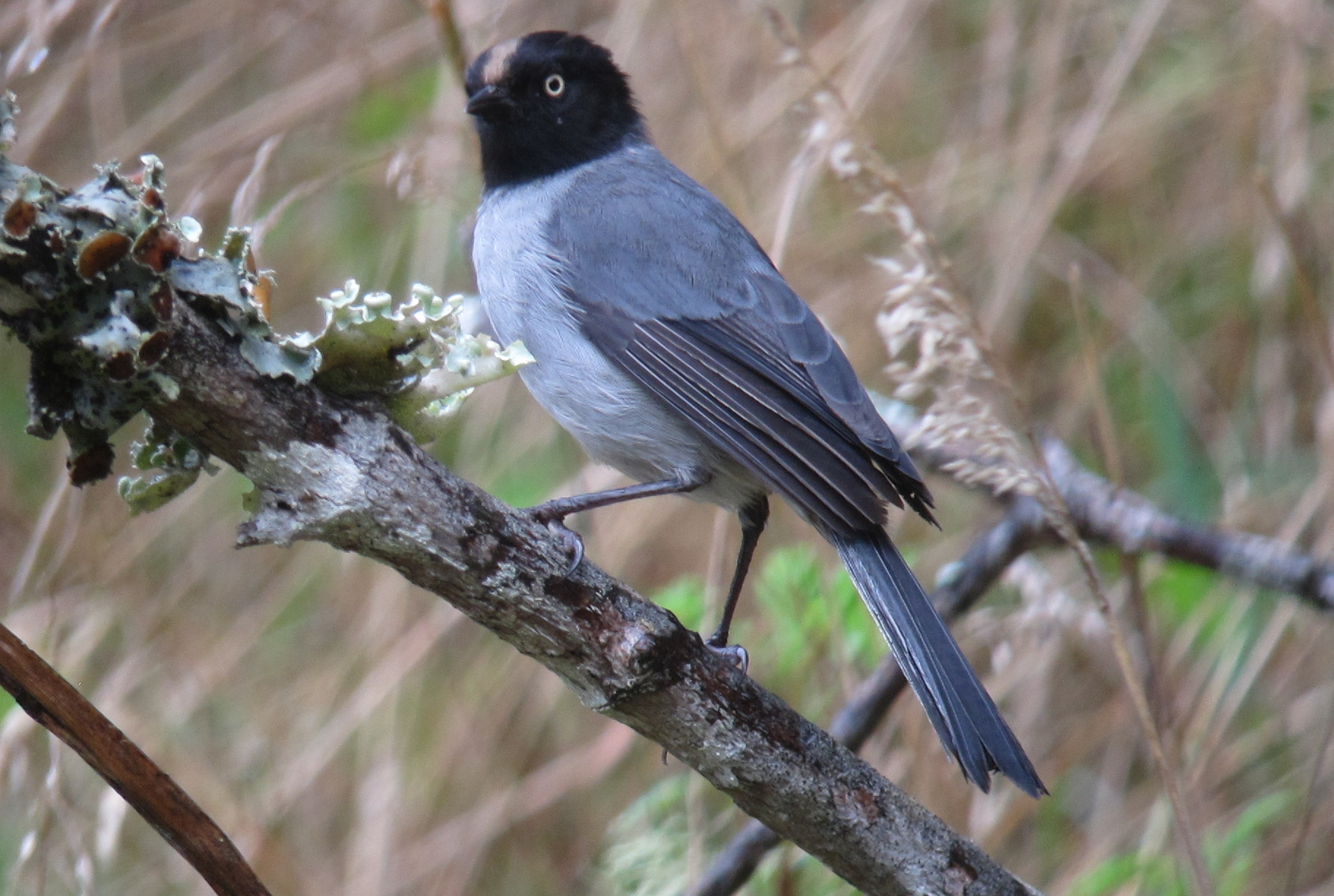 Black-headed Hemispingo at Guasca, Cundinamarca, Colombia